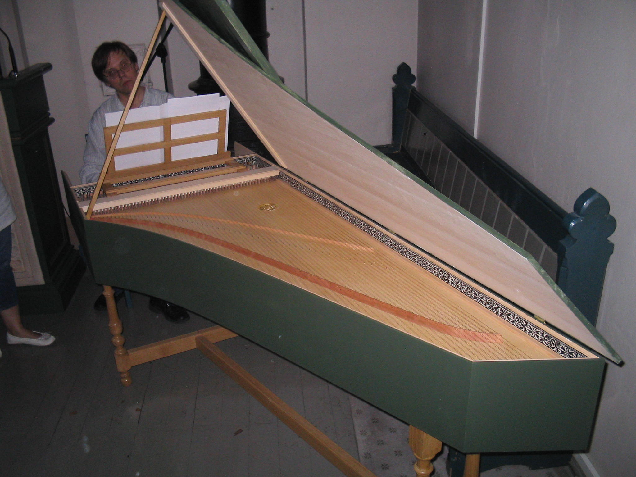 Skoger church, Drammen, Norway, cembalo